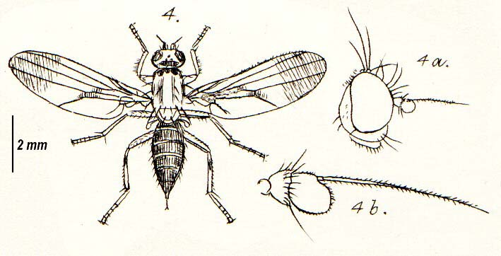 Clusiodes albimanus (Meigen) (originally Heteroneura albimana Meigen) a member of the Clusiidae from Walker Insecta Brittanica Diptera